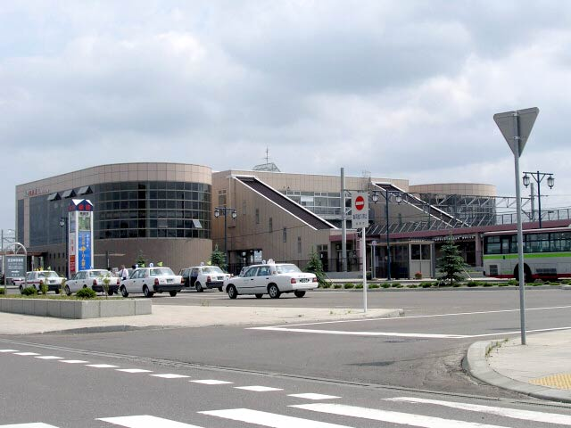 Bibai Station in Hakodate Line, Japan